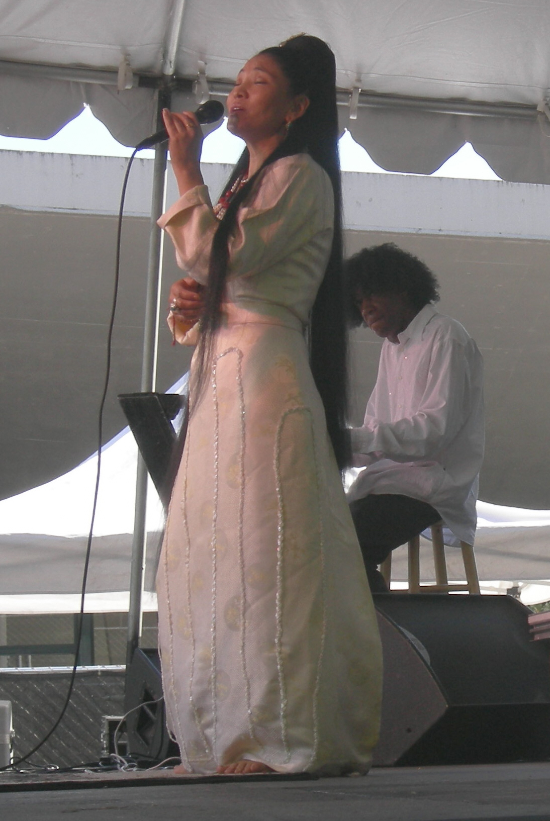 Tibetan singer Yungchen Lhamo performs at Bumbershoot, a music and arts festival held every Labor Day weekend at Seattle Center, Seattle, Washington, USA.